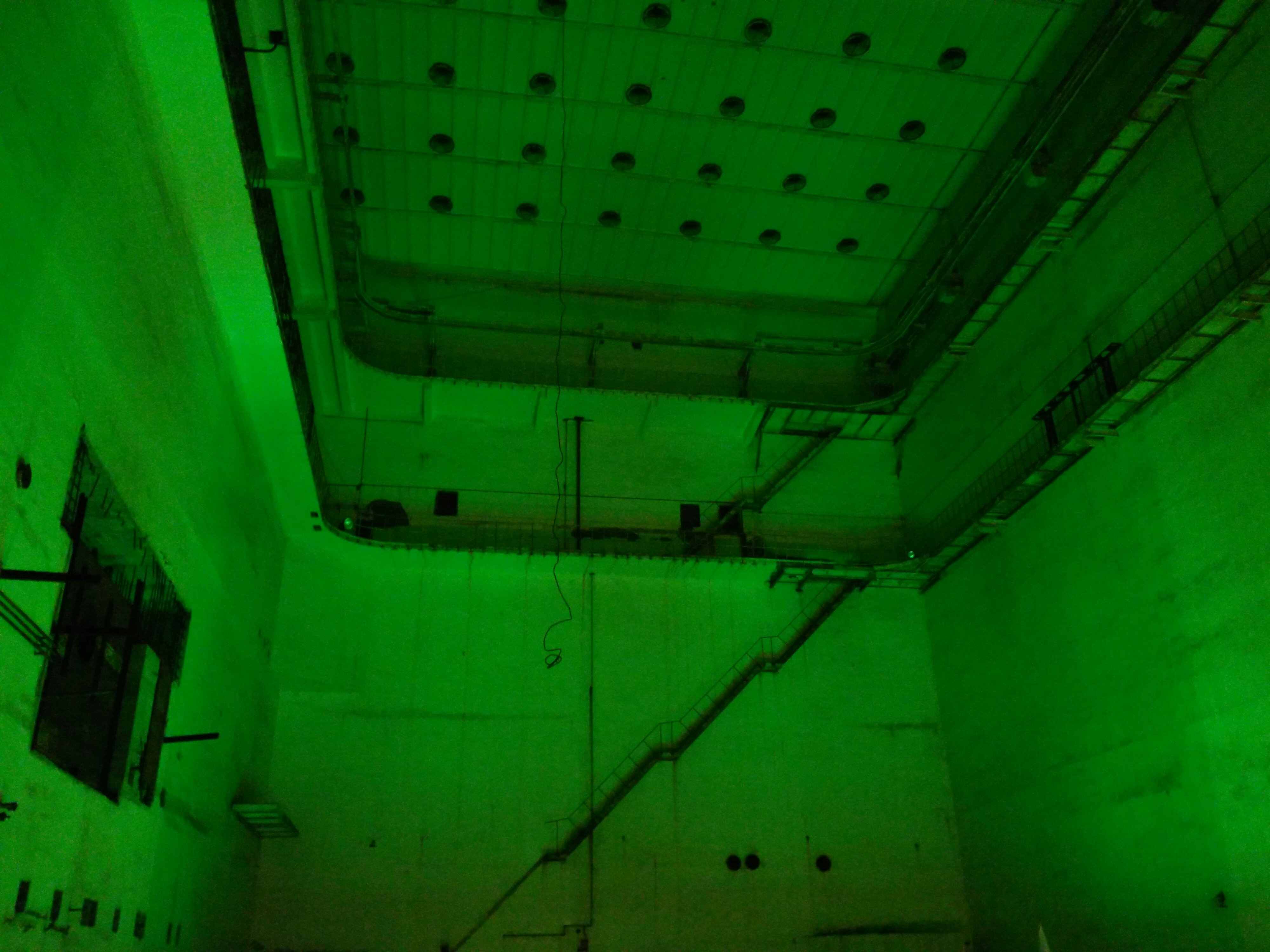 Cavernous hall